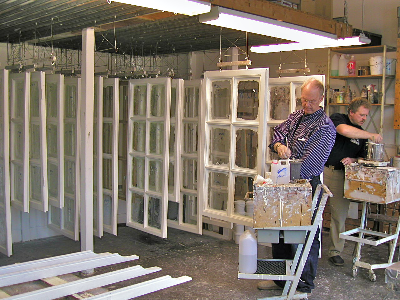 Painting workshop of a windowcraftsman.